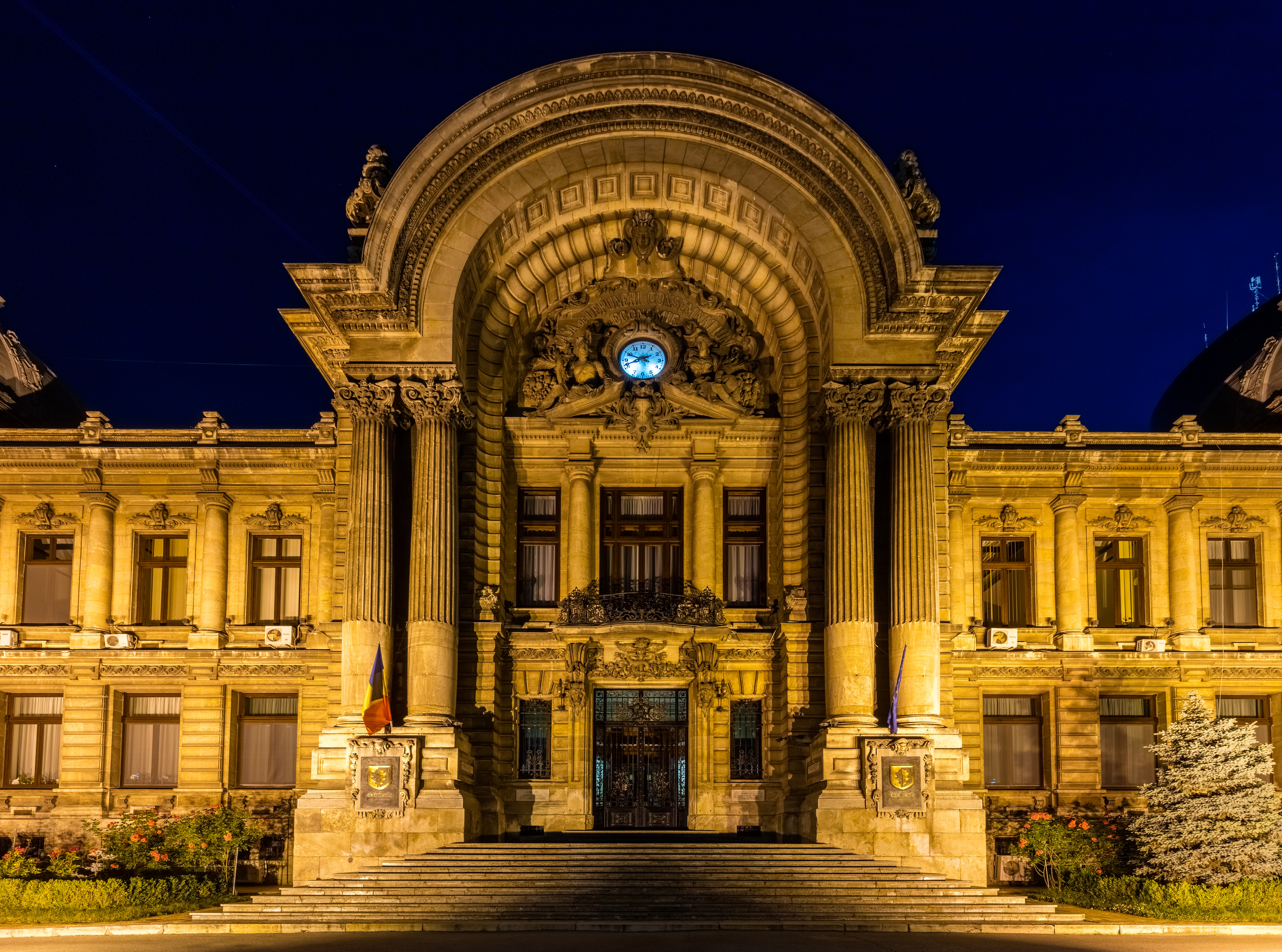 CEC Palace, Bucharest, Romania